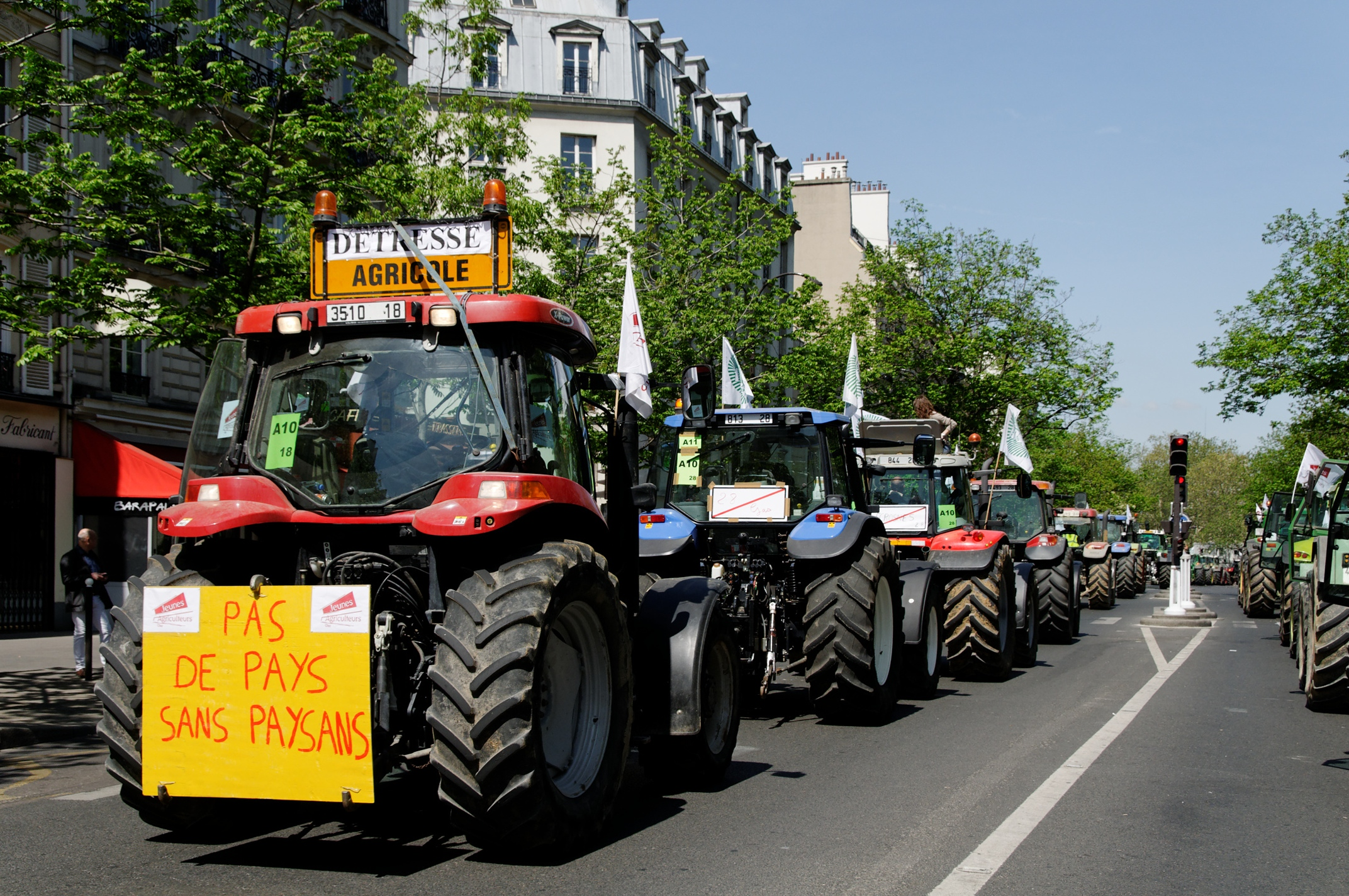 Demonstrations of farmers in Paris, France, 27 April 2010